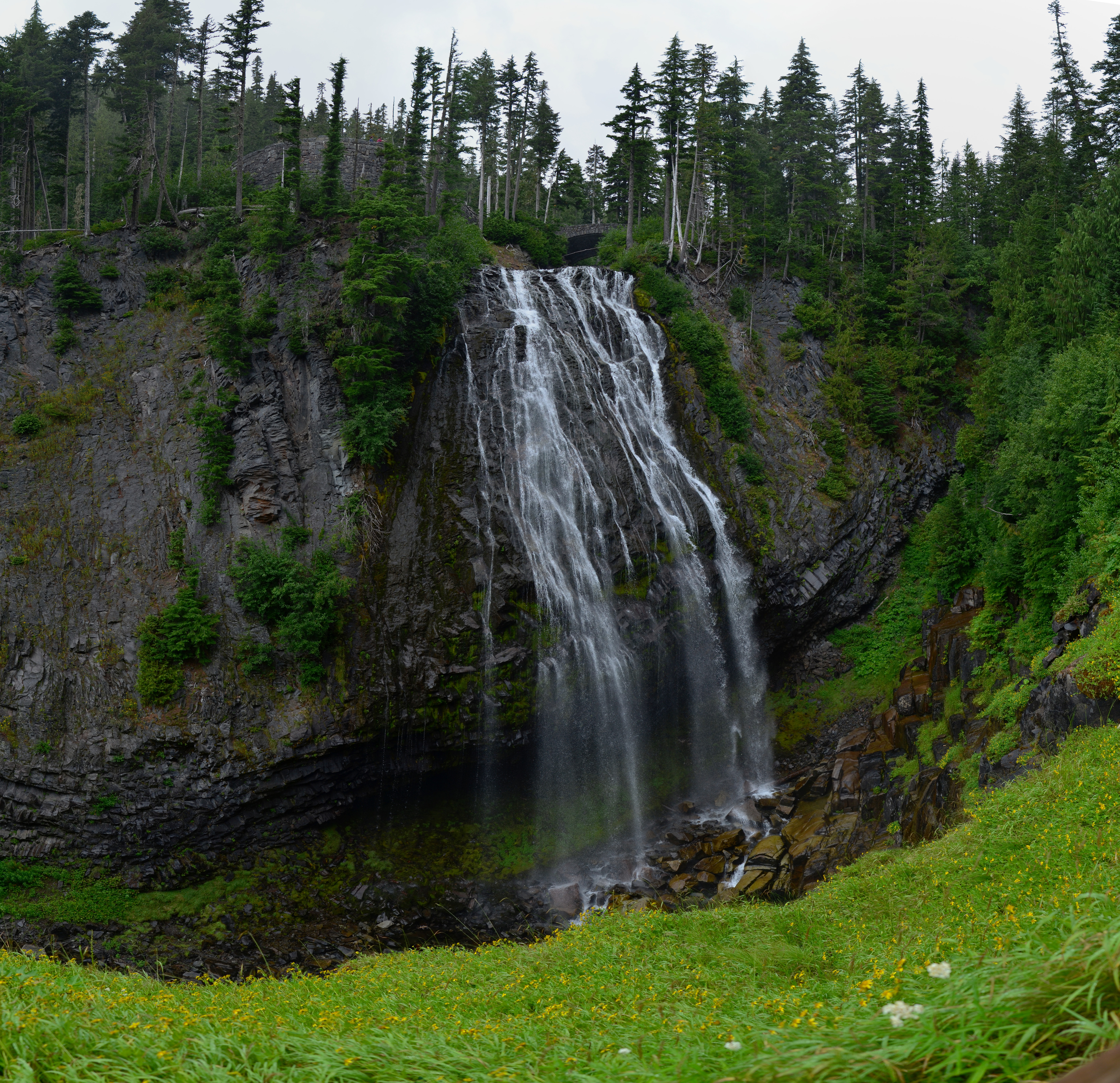 Equirectangular-projection panorama: Narada Falls , Mount Rainier National Park, Washington, U.S. This image was created with Hugin.